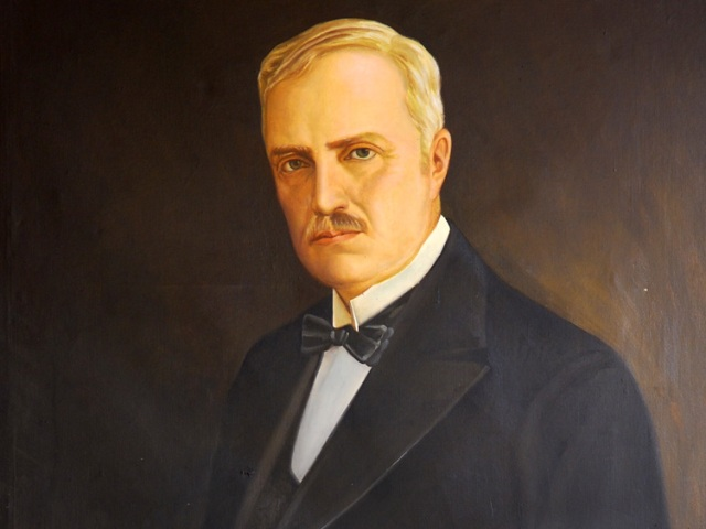 Portrait of Federico Malo Andrade by Abraham Sarmiento Carrión (1866—1929), made around 1915.